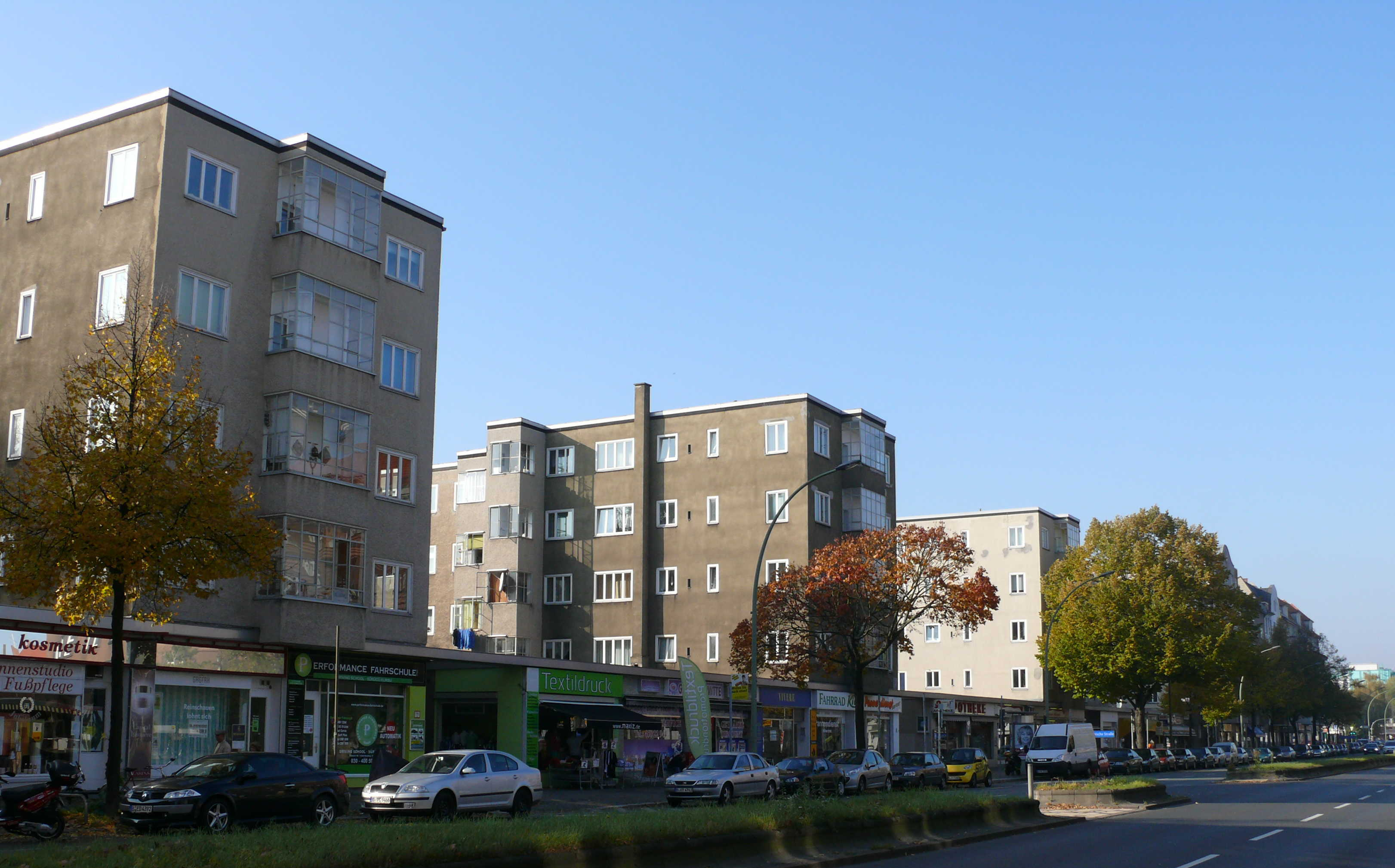 Wedding Müllerstraße Friedrich-Ebert-Siedlung